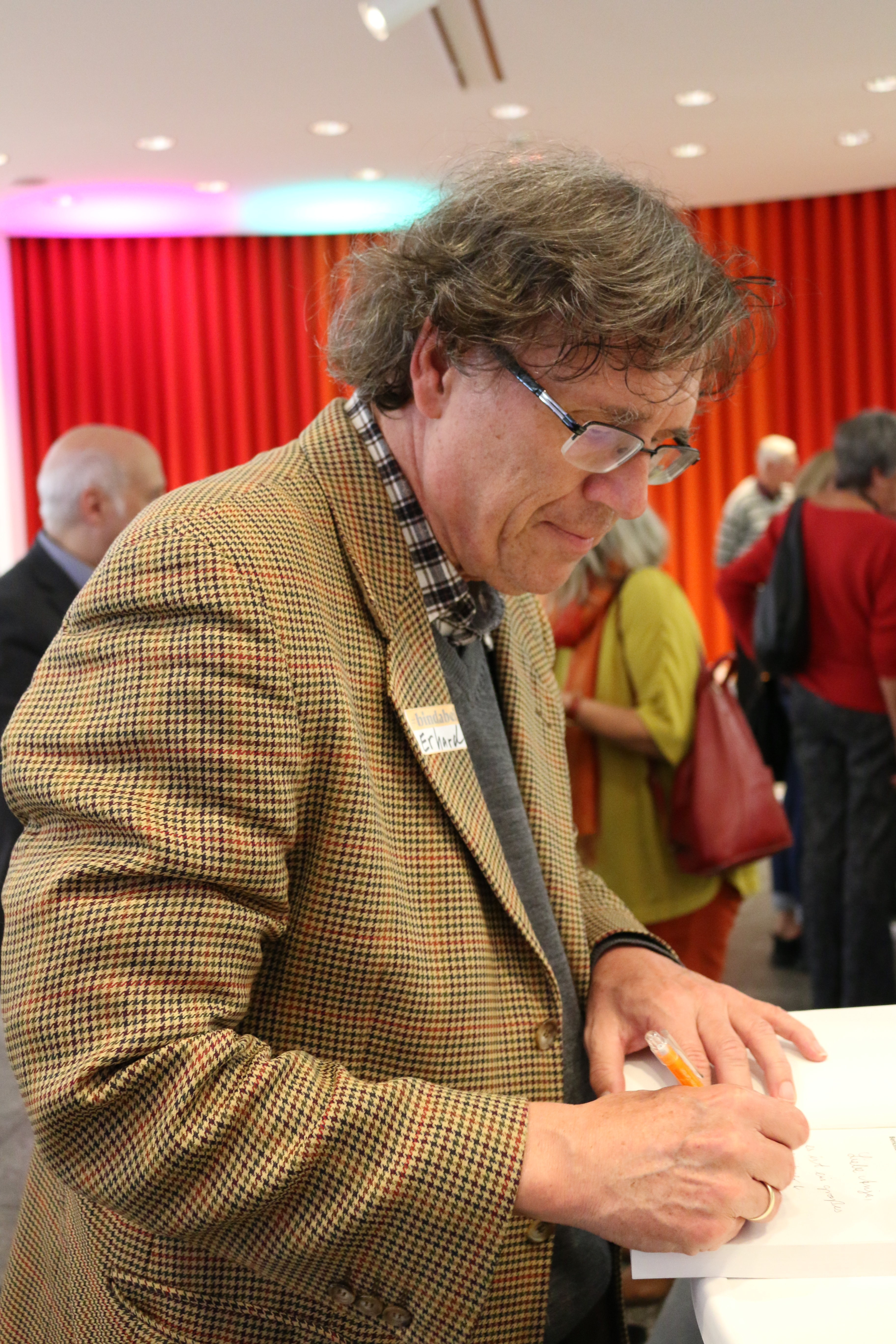 Erhard signing at Museum Angewandte Kunst.